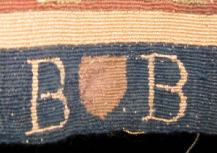 Mark of the Brussels weavers as rendered on the tapestry The Homecoming of Ulysses, by Niclaes Hellinck, Brussels, c.1550-1555. Hardwick Hall, Derbyshire